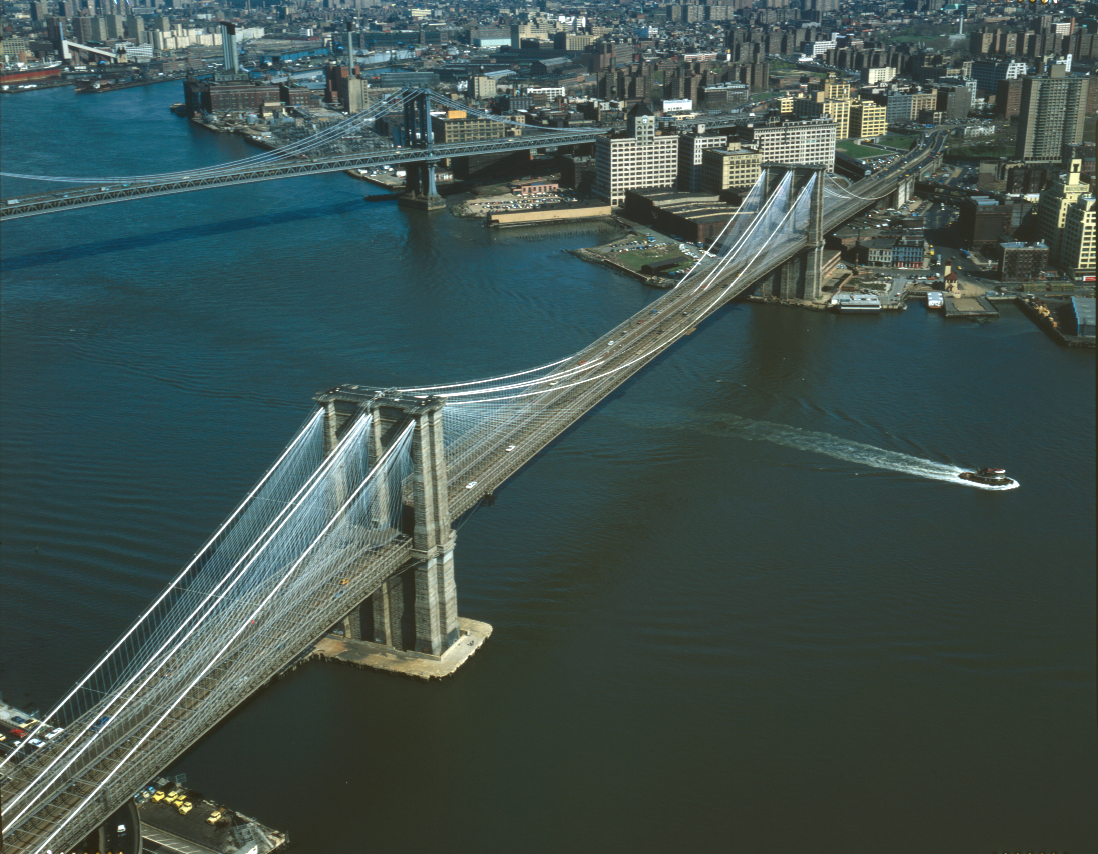 Brooklyn Bridge, spanning East River between Brooklyn & Manhattan, New York City, New York County, NY. View looking east towards Brooklyn